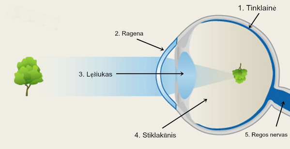 Image of irregular formation of the lithuanian names